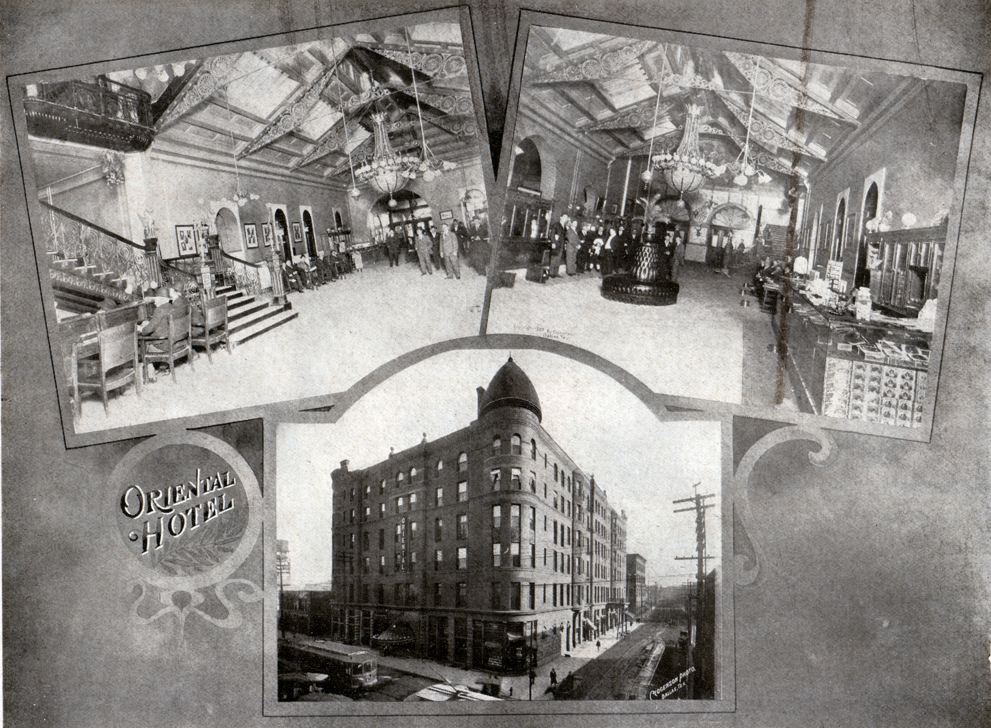 This image was scanned from "DALLAS : CONVENTION CITY, 1908" published in 1908 by the Benevolent and Protective Order of Elks for their Grand Lodge session and Annual Reunion held that year in Dallas. / Oriental Hotel